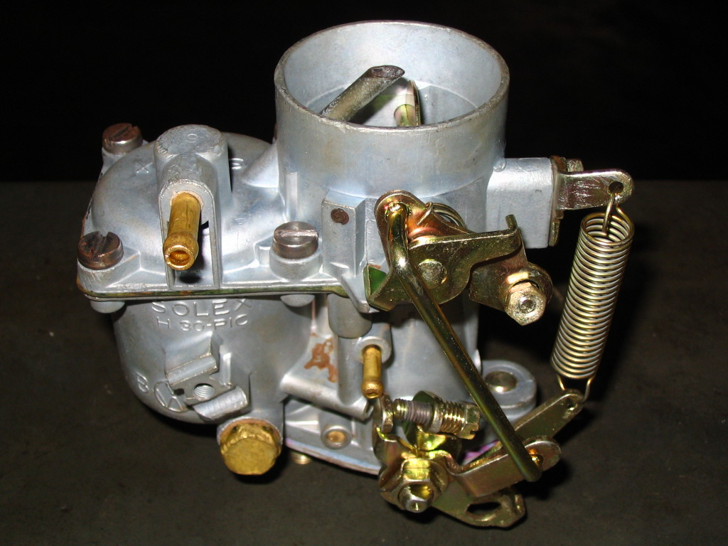 Carburetor: Solex H30 of a VW Fusca of 1970. Die casted.